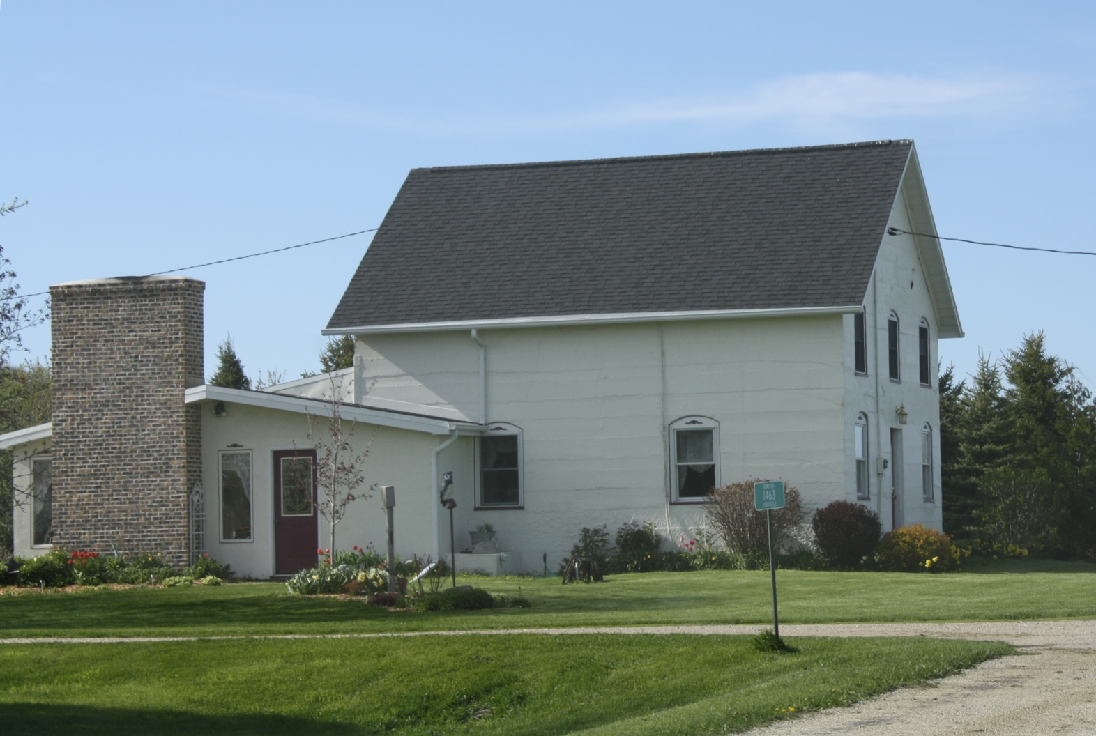 The Joseph Monfils Farmstead. It is listed on the National Register of Historic Places.